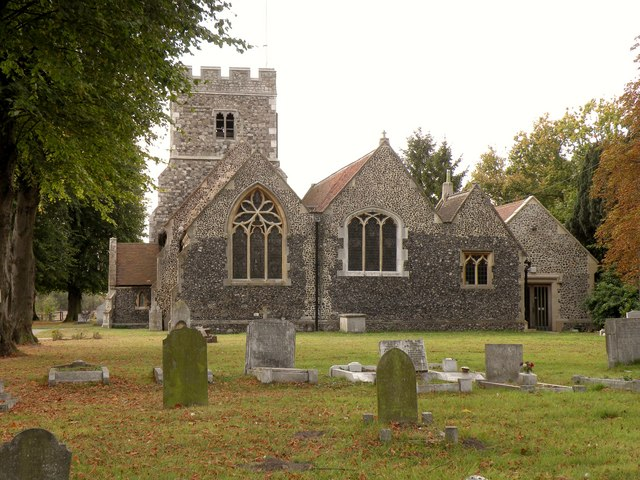 Parish church of St Mary Magdalene, North Ockendon, east London (formerly Essex), seen from the east